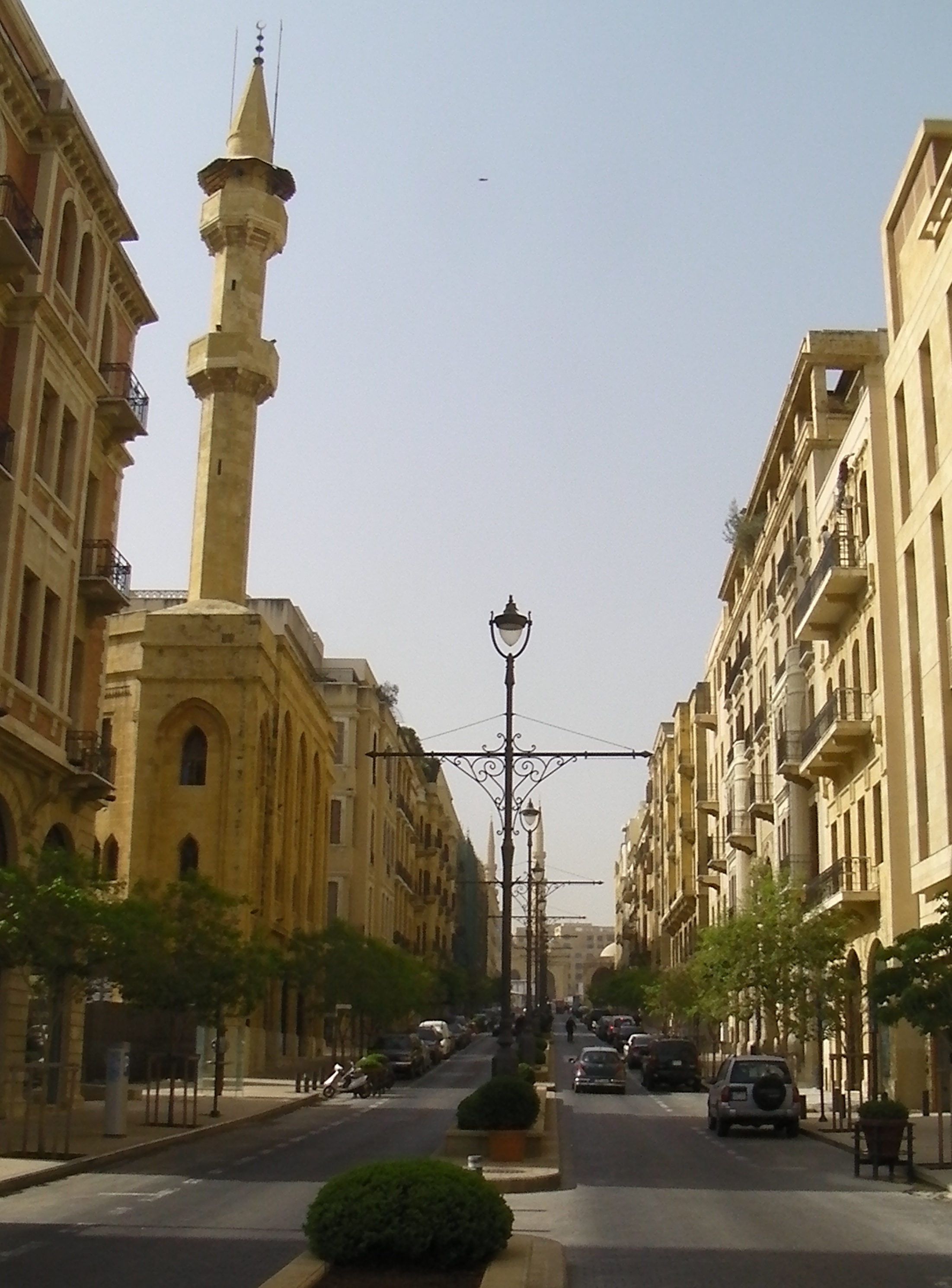 Beirut's upscale central business district, just north-west of Martyrs' Square (or Sahet el Shouhada ساحة الشهداء).